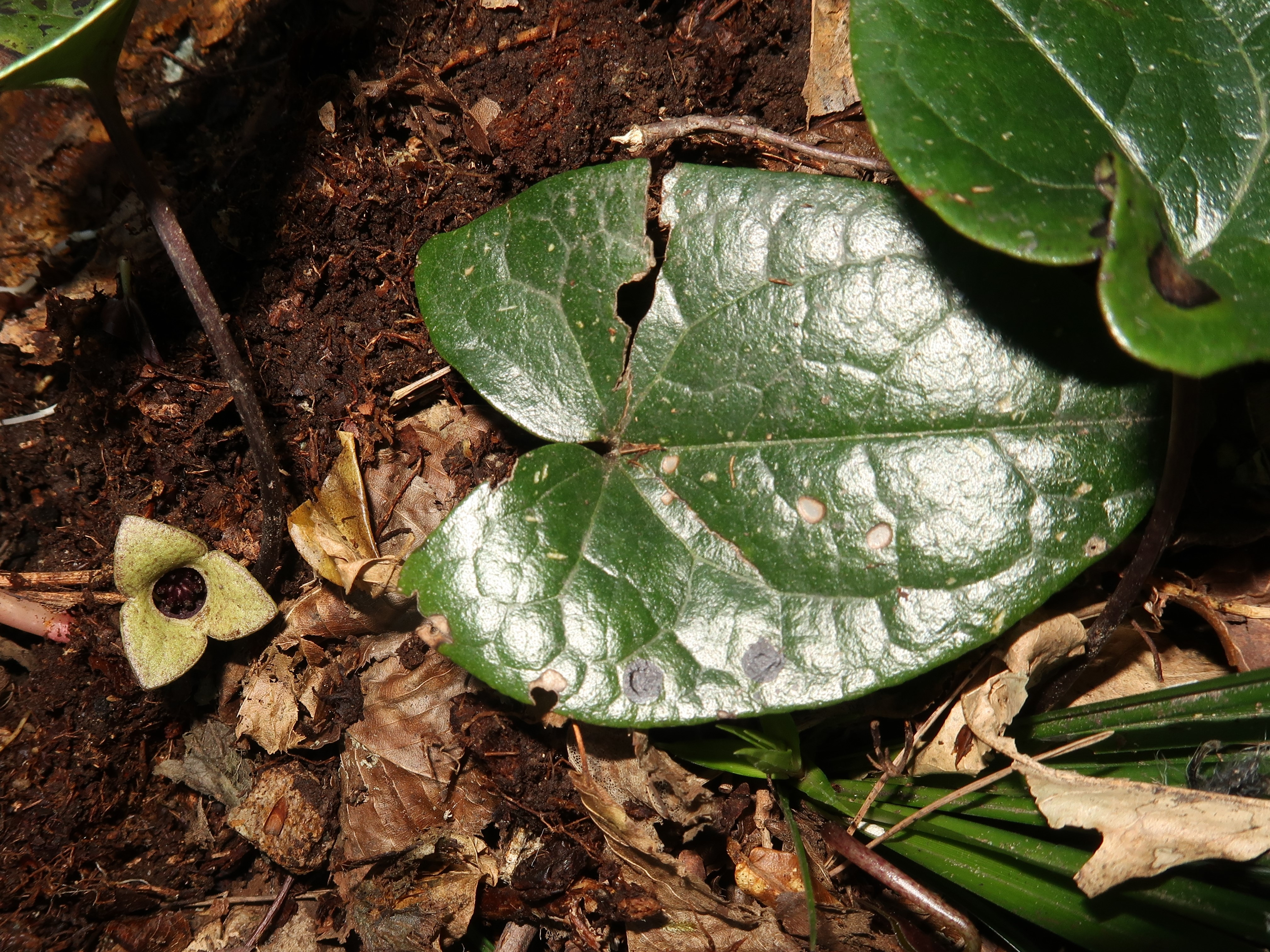 Asarum ikegamii, Aga town, Higashi-kanbara district, Niigata pref., Japan